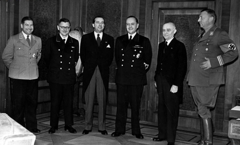 German Minister of Agriculture Walter Darre (fourth from left) along with his Hungarian colleague (third from left) and the Hungarian ambassador in Germany, Döme Sztojay (fifth from left), 1940.